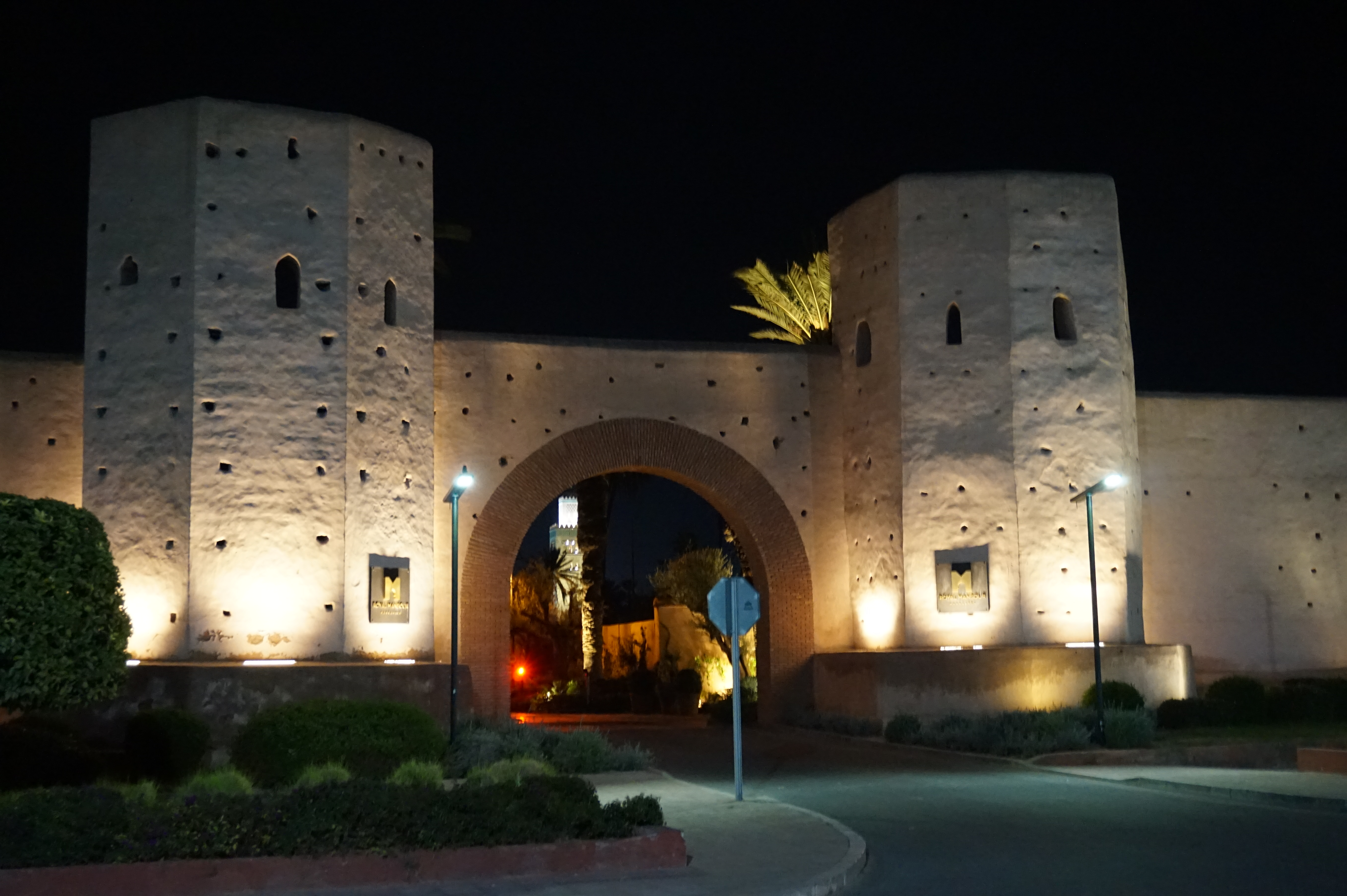 Bab el-Makhzen, a western city gate of Marrakesh.